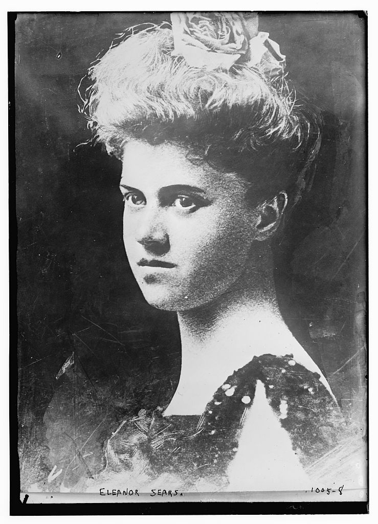 Bain News Service/LOC ggbain.04649. Eleonora Sears